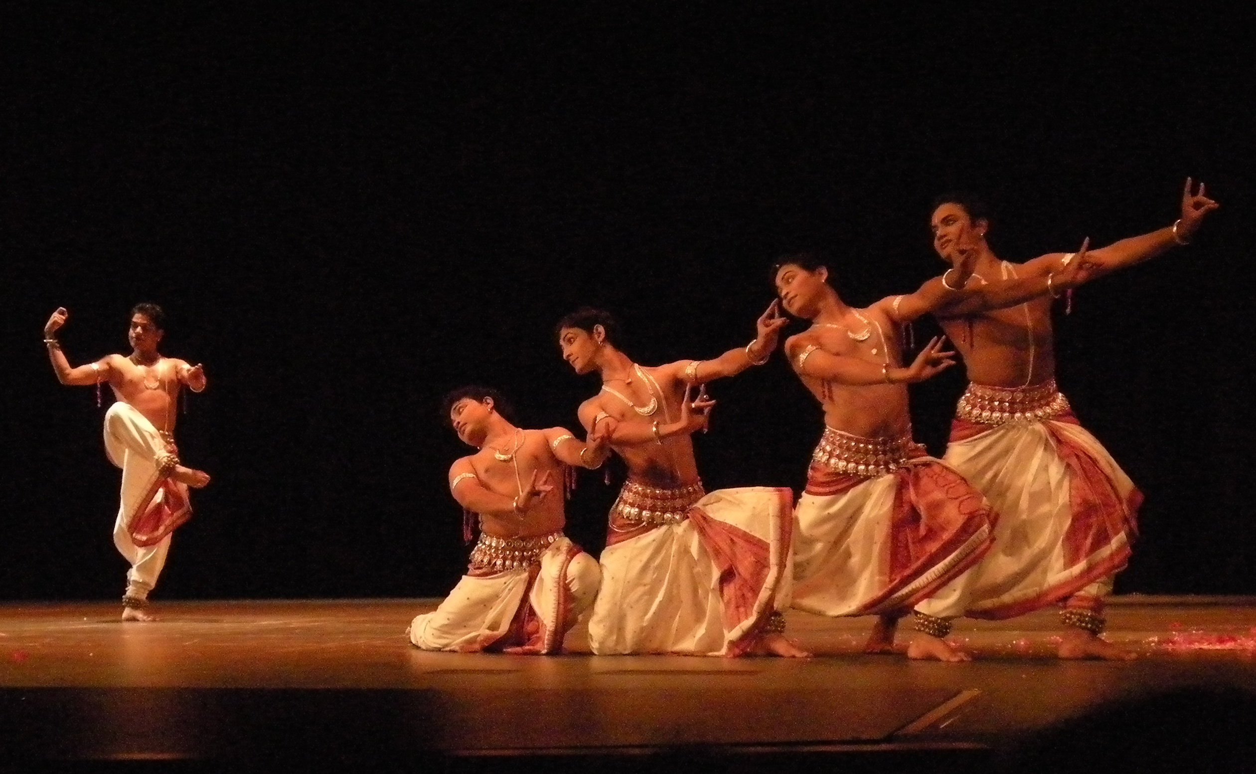 Performance by Odissi dance troupe Rudrakshya (with live musical accompaniment) at Interlake High School, Bellevue, Washington; performance in the Ragamala series (Greater Seattle). Information about the individual performers can be found on the Ragamala site.